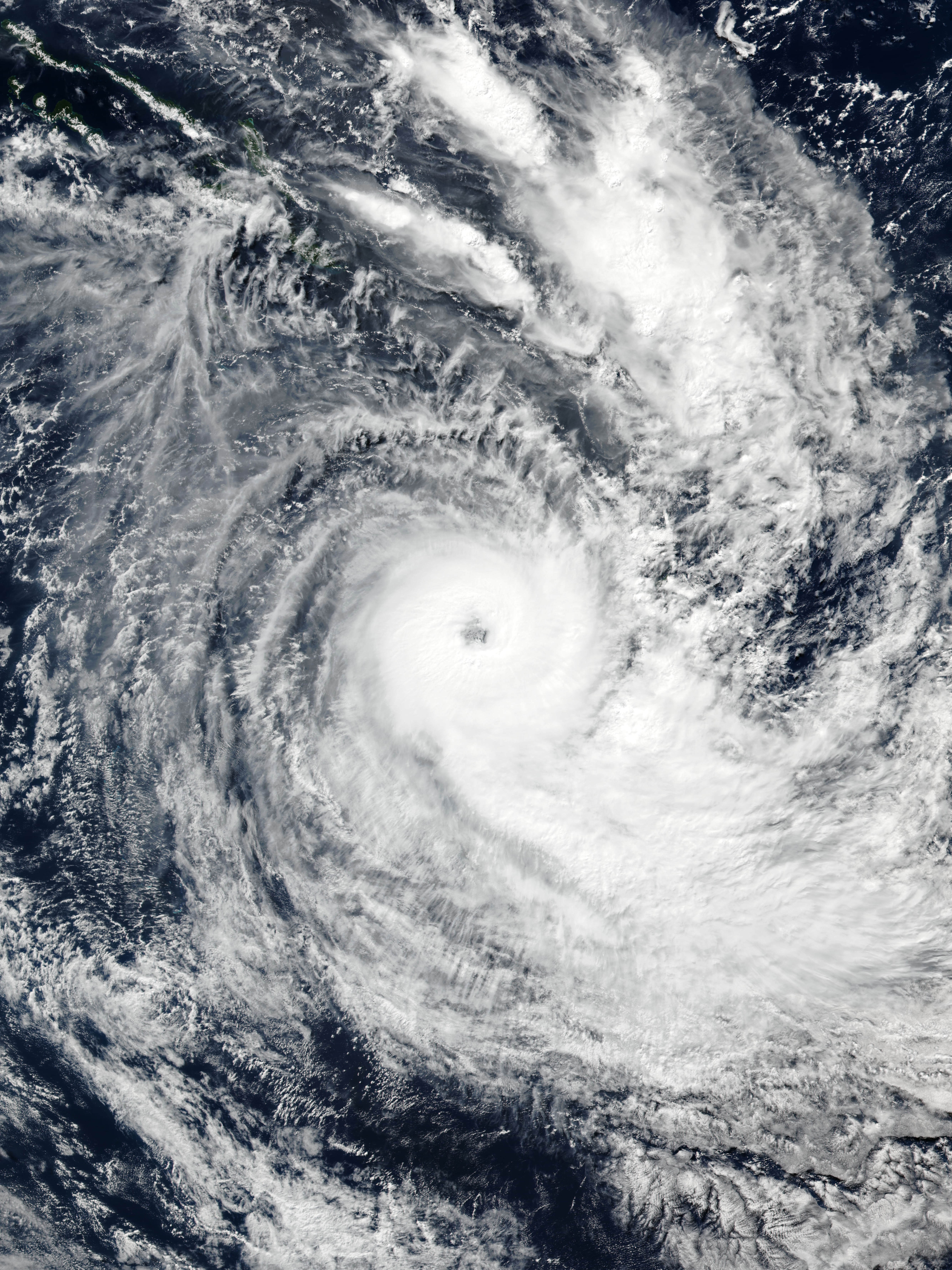 Severe Tropical Cyclone Donna north of New Caledonia at peak intensity on 8 May 2017, the strongest off-season South Pacific cyclone on record.